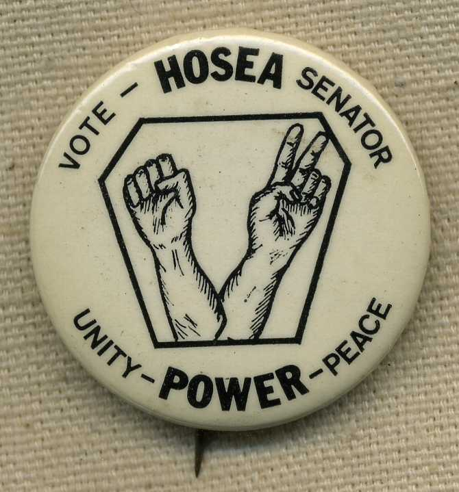 This is a 1 1/2", celluloid campaign button used in 1972 when Hosea Williams was the a candidate in the primaries for U.S. Senator from Georgia.